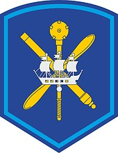 6th Air and Air Defense Forces Army Insignia